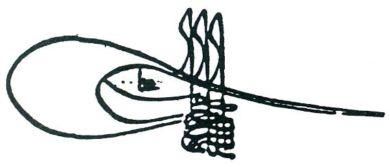 Tughra (i.e., seal or signature) of Selim I, Sultan of the Ottoman Empire (1512-1520). An explanation of the different elements composing the tughra can be found here.